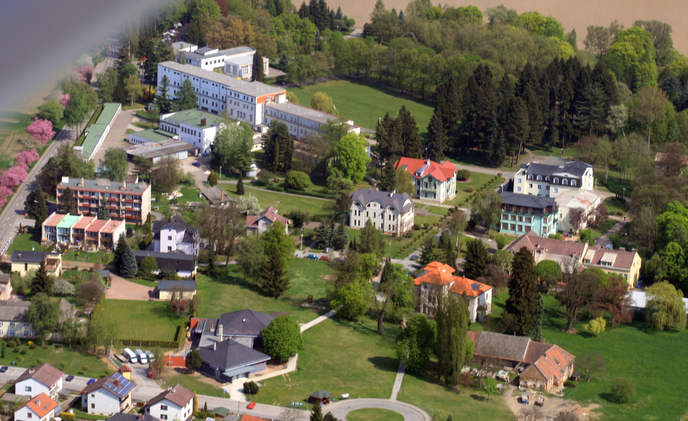 Village and small spa Velichovky from air, eastern Bohemia, Czech Republic